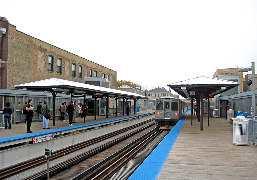 A northbound Purple Line Express train pulls away as passengers wait on the southbound platform at Sedgwick on the morning of November 12, 2007, the first day the main entrance reopened. The refurbished historic canopies cover the center of the widened, renovated platforms which are now ADA-accessible thanks to the elevators visible in the background. Go to for more photos.